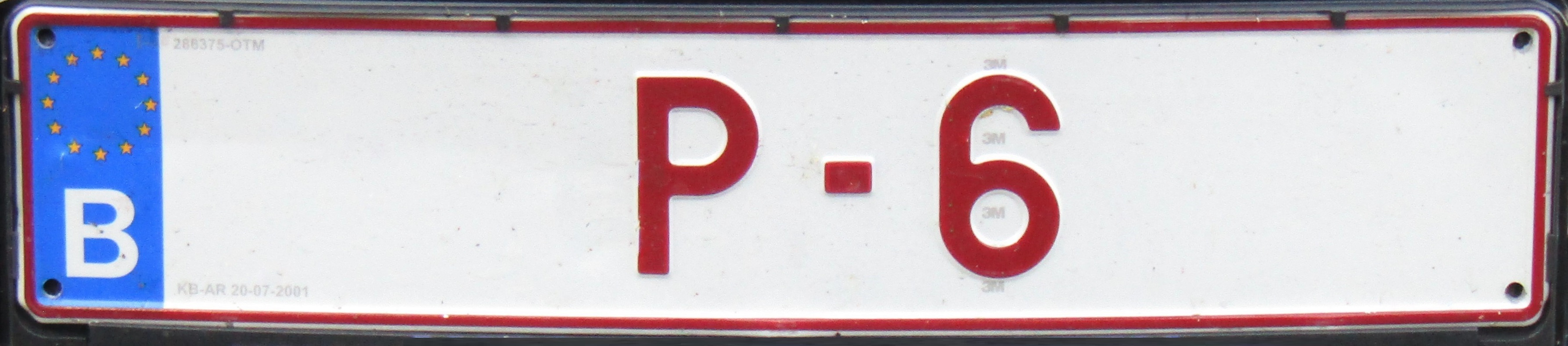 (B) P-6 Belgium Parliament license plate